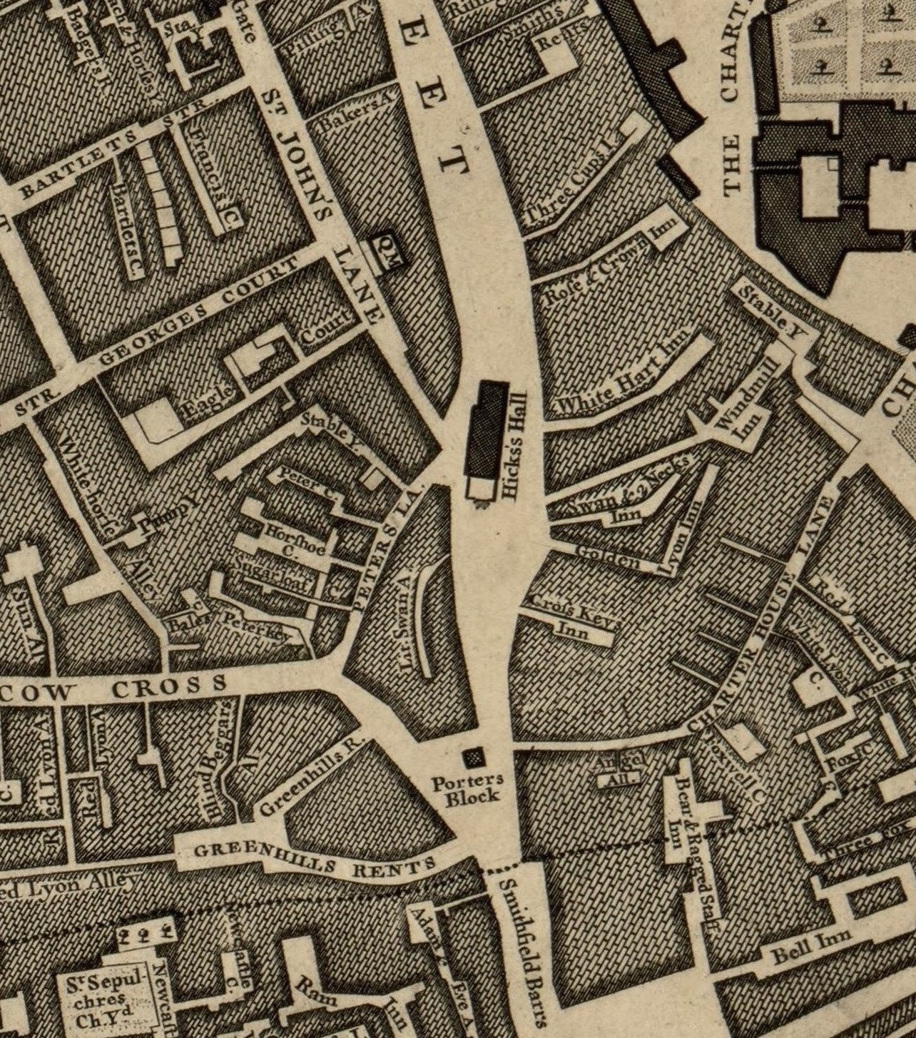 Detail of John Rocque's Map of London, 1746, sheet 1d, showing lower end of St John's Street and Hicks Hall